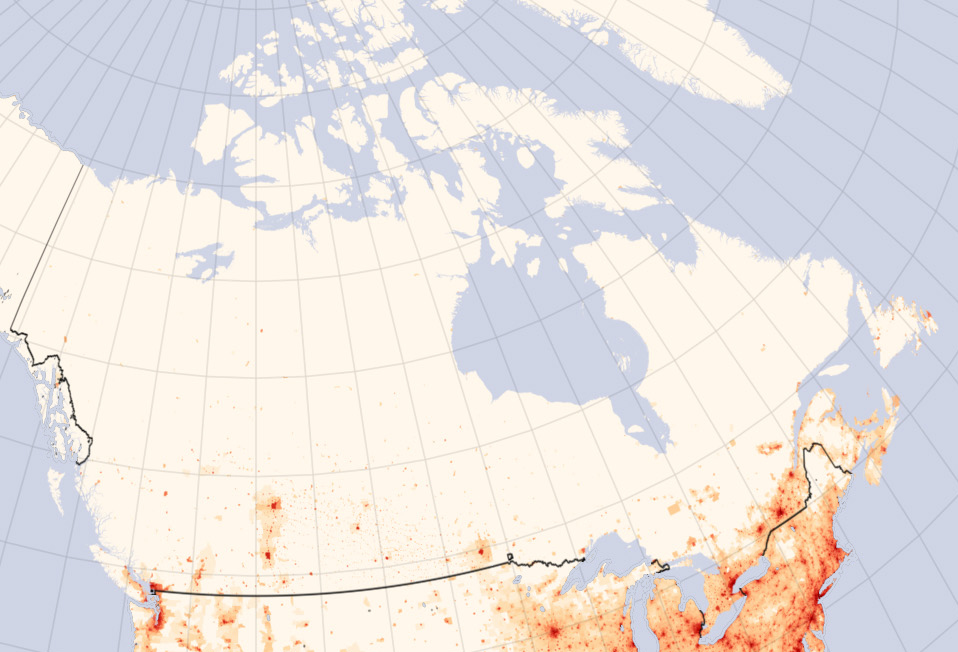 Modified map with interior US borders removed to show only Canadian portion of map